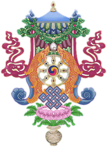 Eight buddhist symbols